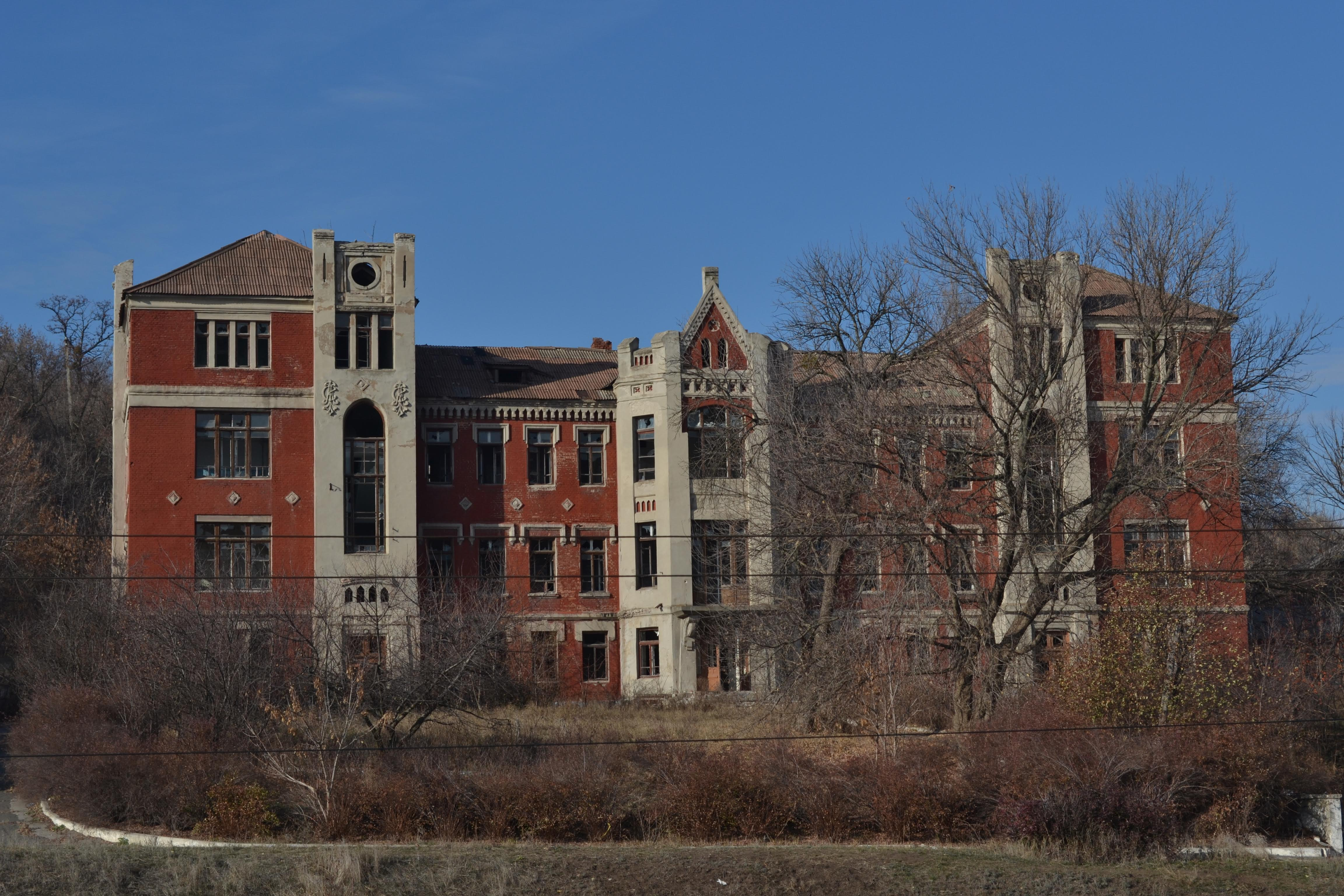 Belgium buildings of Lysychansk